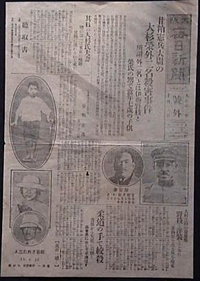 A clip from the Mainichi Shimbun, on the death of Noe Ito and Sakae Osugi.